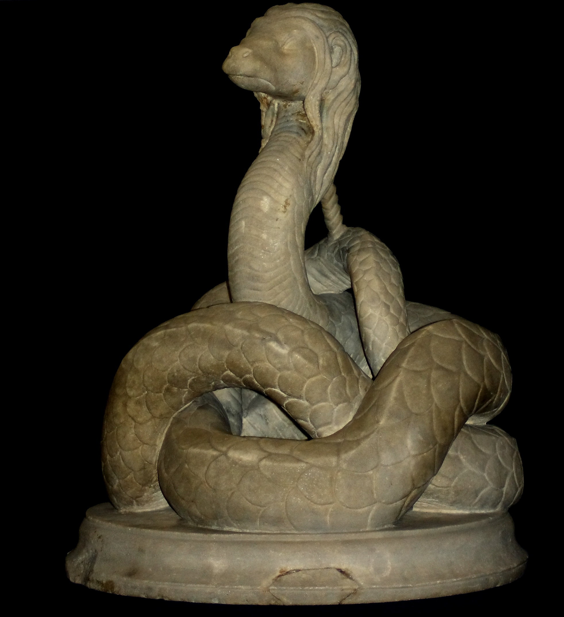 Depiction of Glycon in Tomis, Constanta